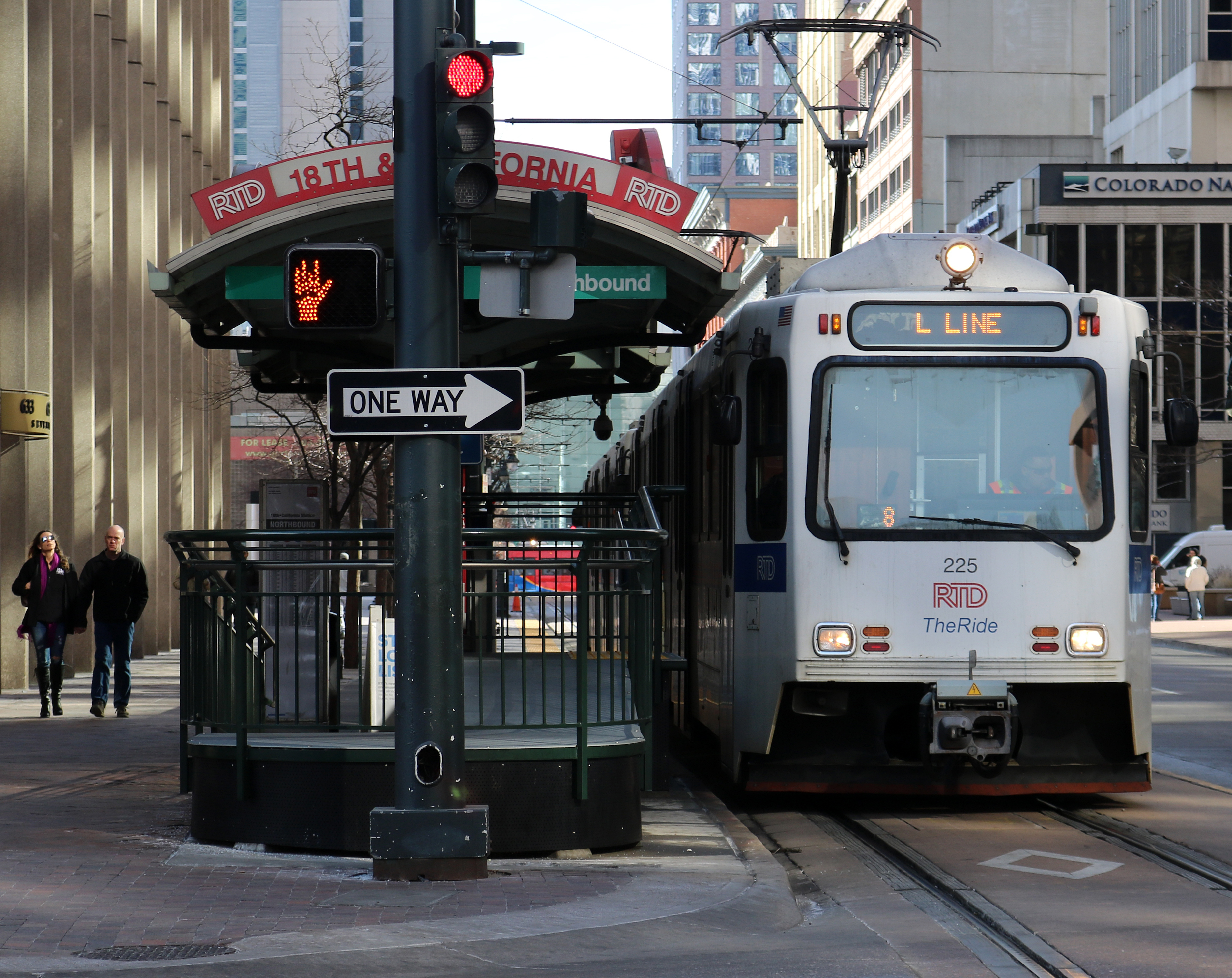 One of the trams on Denver RTD's L Line. The tram is stopped at the 18th & California station in downtown Denver.